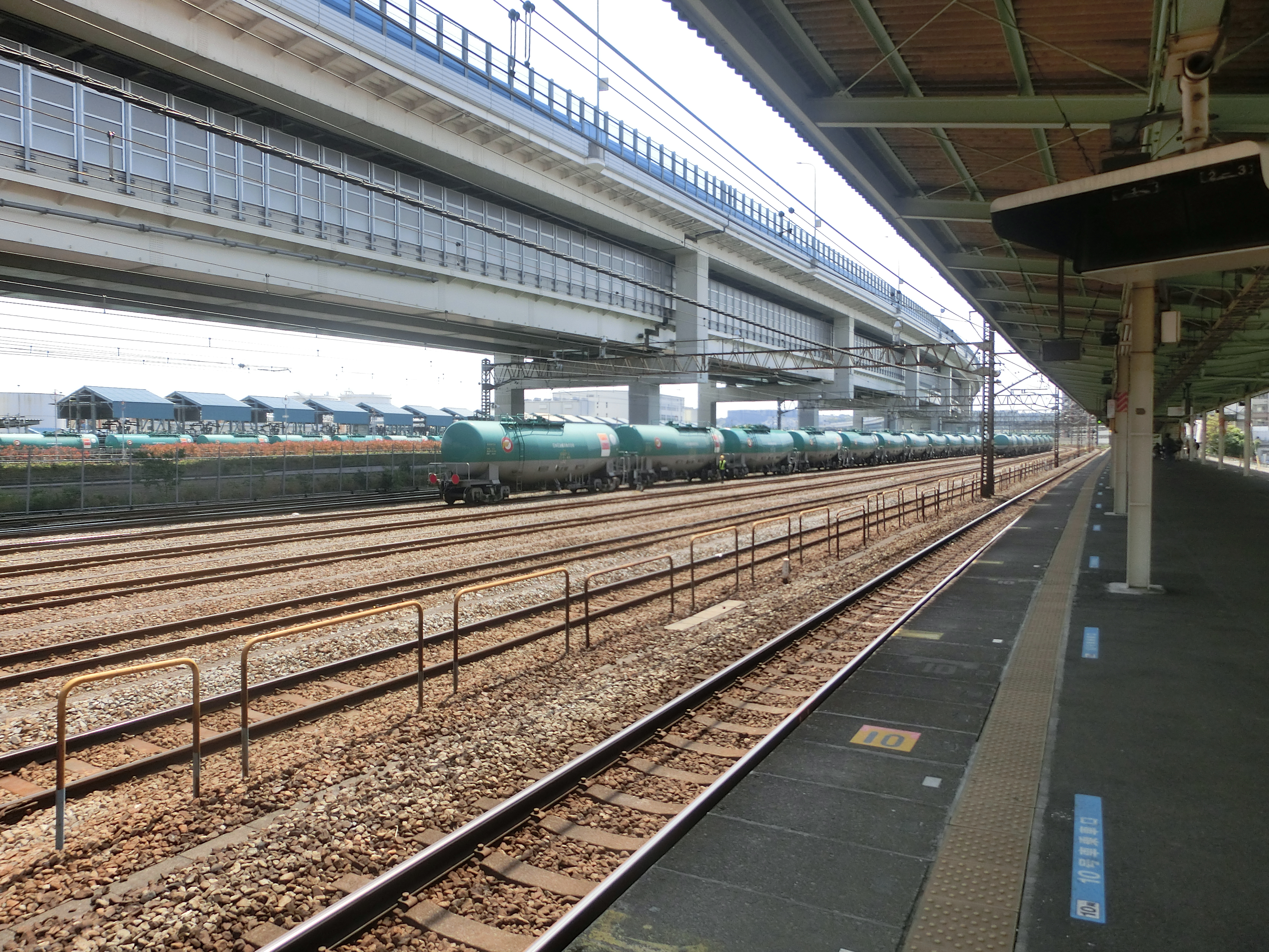 Negishi Station